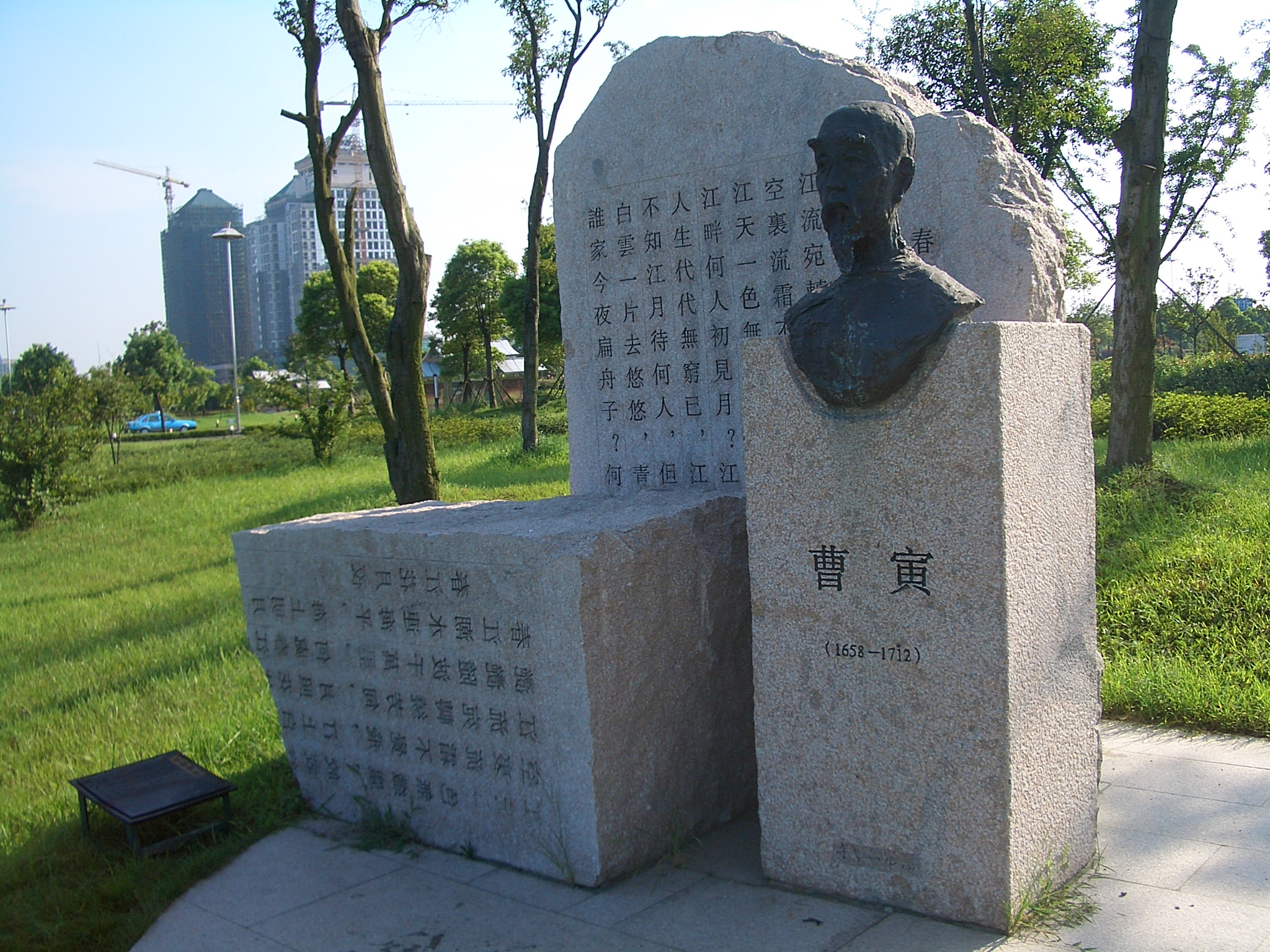 Bust of Cao Yin outside of Yangzhou Museum